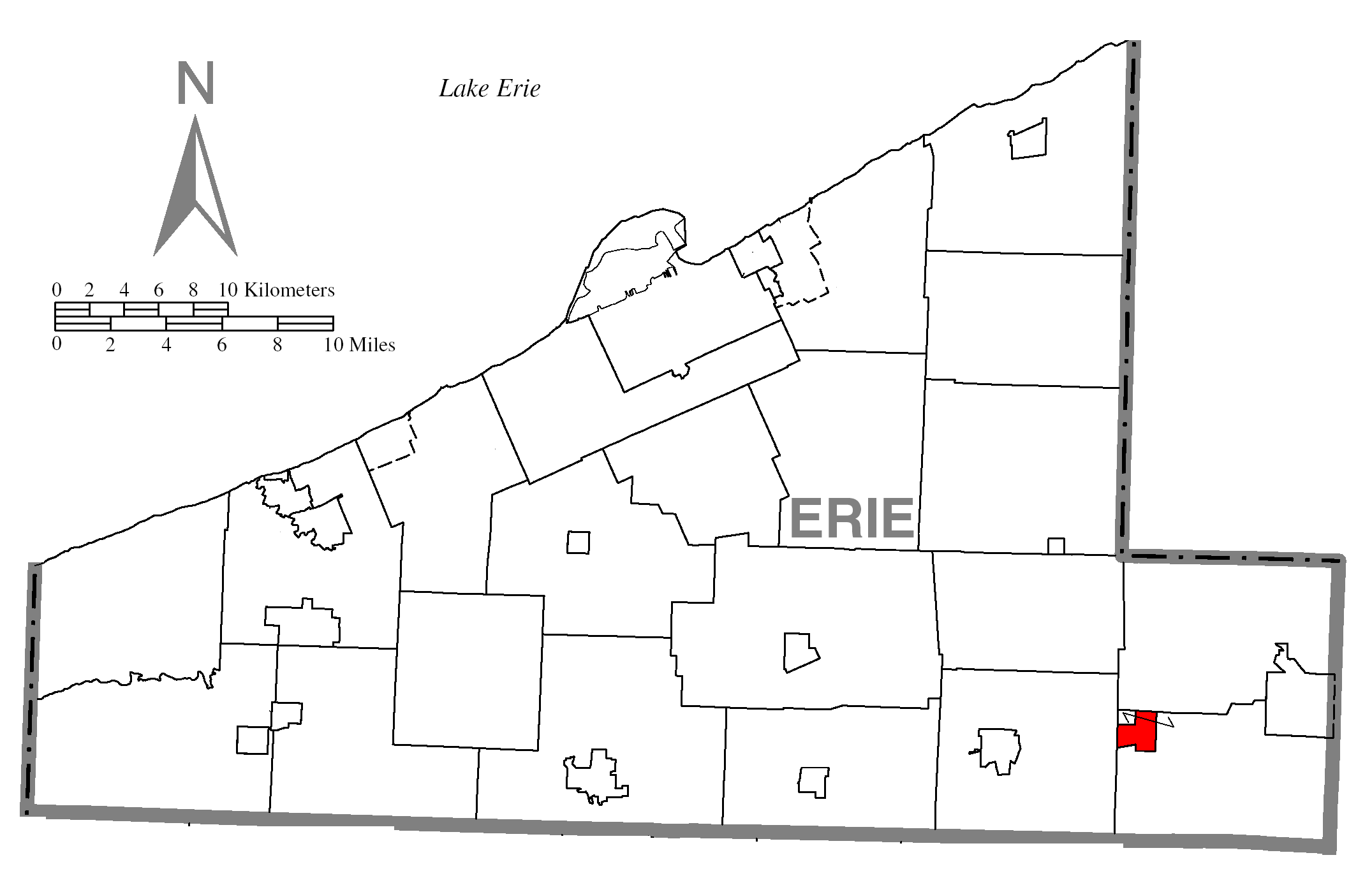 A map of Erie County showing Elgin, Pennsylvania (alternate) highlighted on the map.